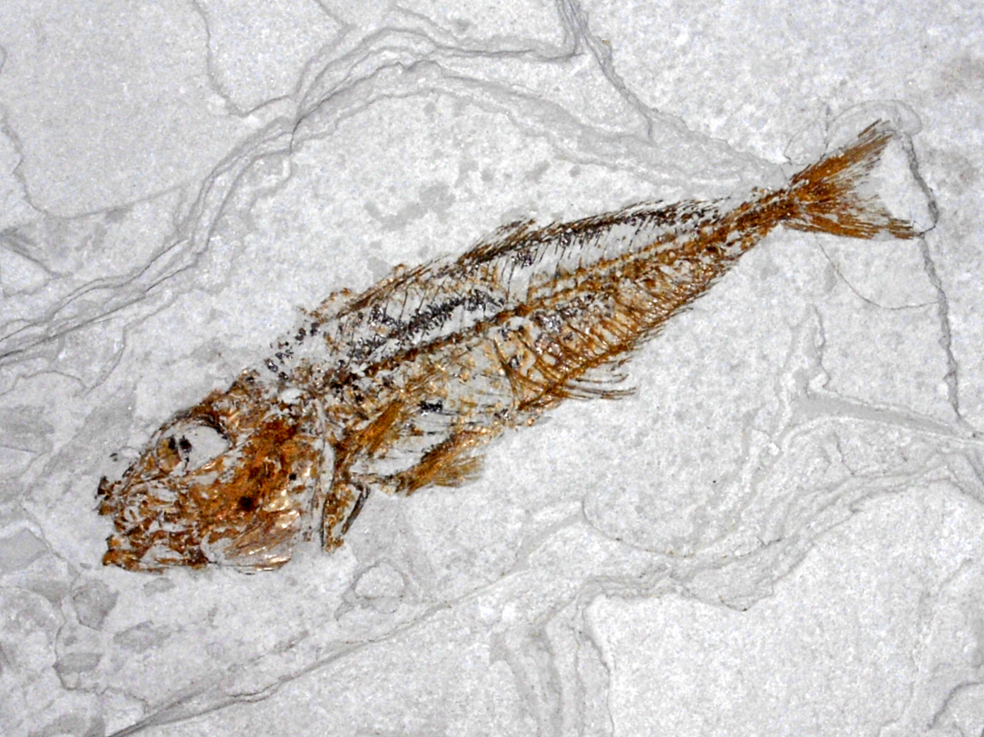 Fossil of Scomber japonicus from Pliocene of Italy, on display at Museo Paleontologico G. Cappellini, Bologna